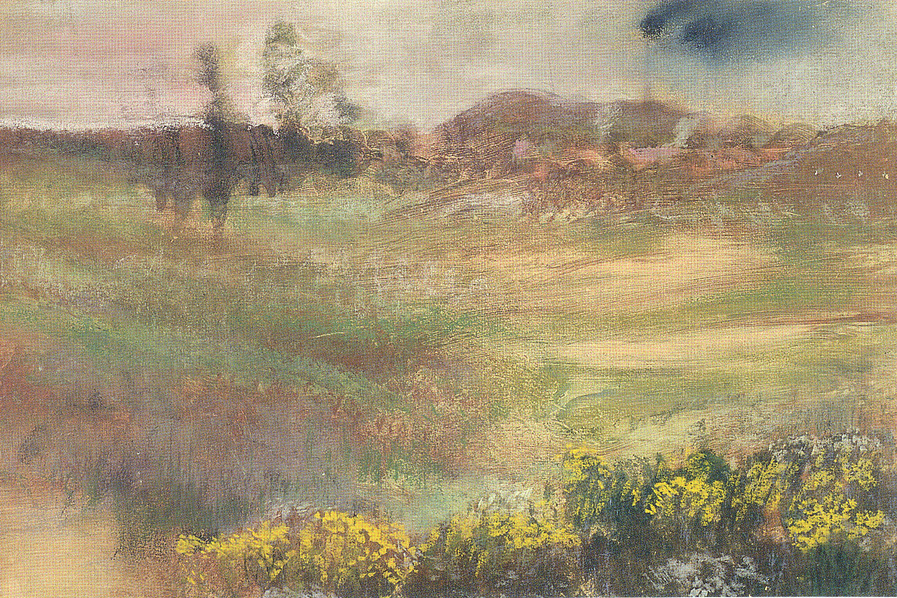 By Edgar Degas, pastel over monotype, c. 1890. Dimensions: 11 7/8 by 15 3/4 inches. French title: Paysage Avec Fumée de Cheminées. Current location: Art Institute of Chicago.